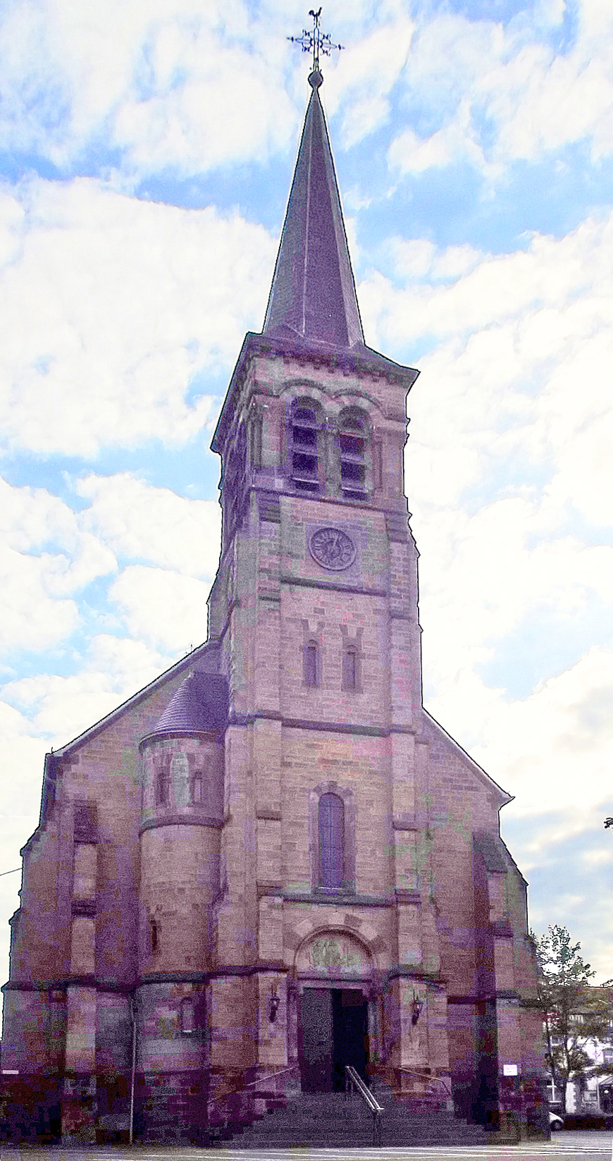 Exterior of the roman catholic church in Großrosseln, Saarland, Germany